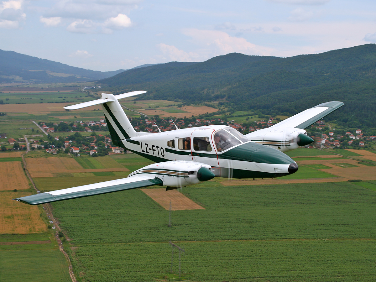 Piper PA-44 Seminole (LZ-FTO) over Bulgaria.